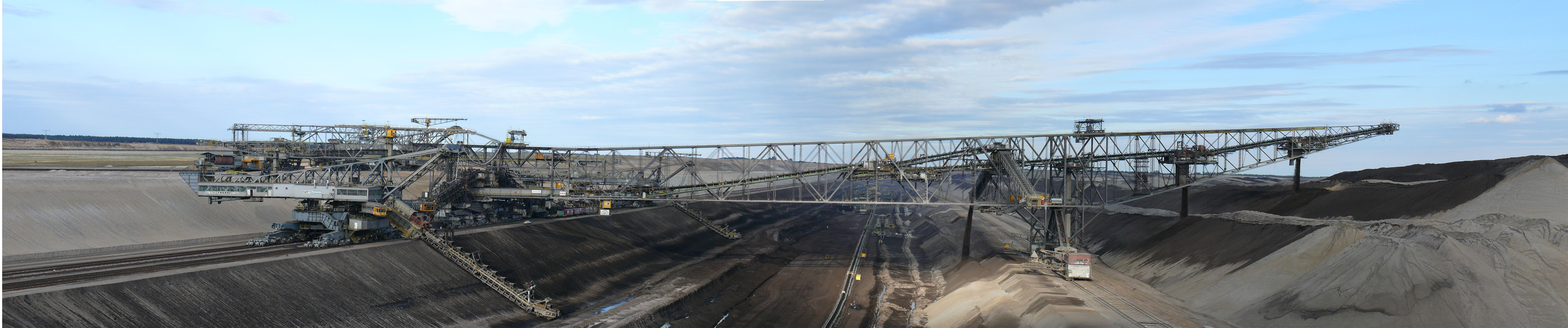 Overburden Conveyor Bridge F60 in the opencast mine near Jänschwalde, Germany